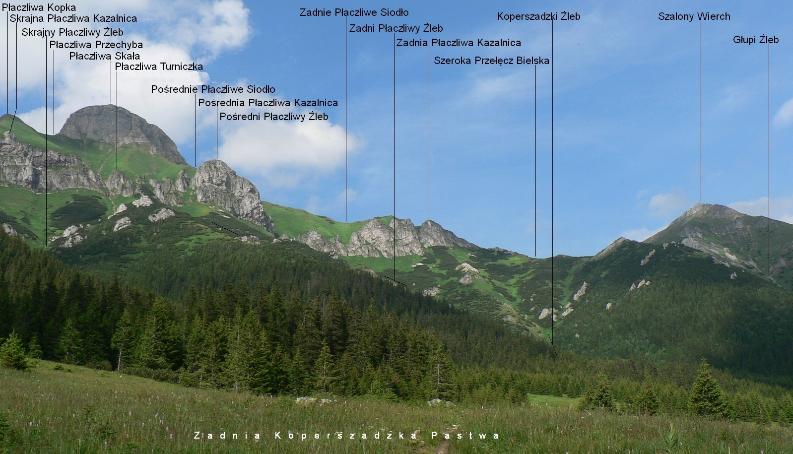 View from Zadnie Koperszady